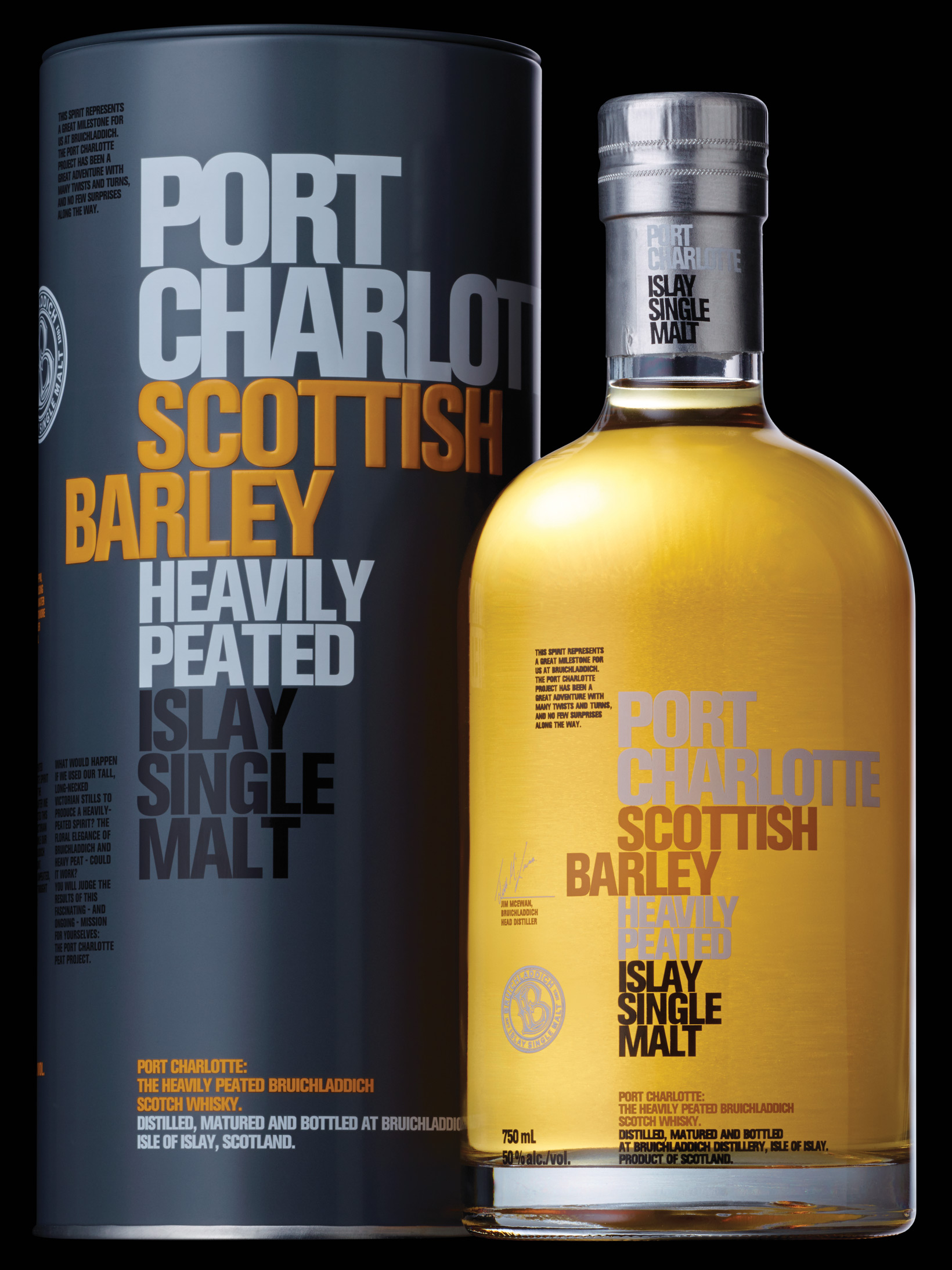 Official distillery product shot